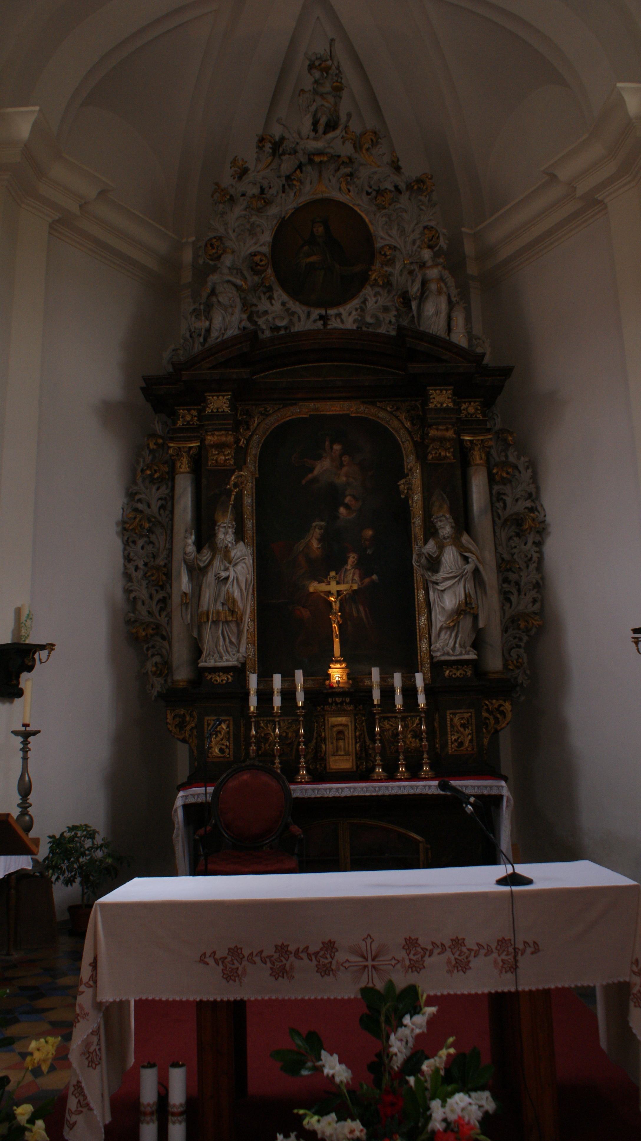 Church of Saint Catherine (Tetín) Church of Saint Ludmila (Tetín)